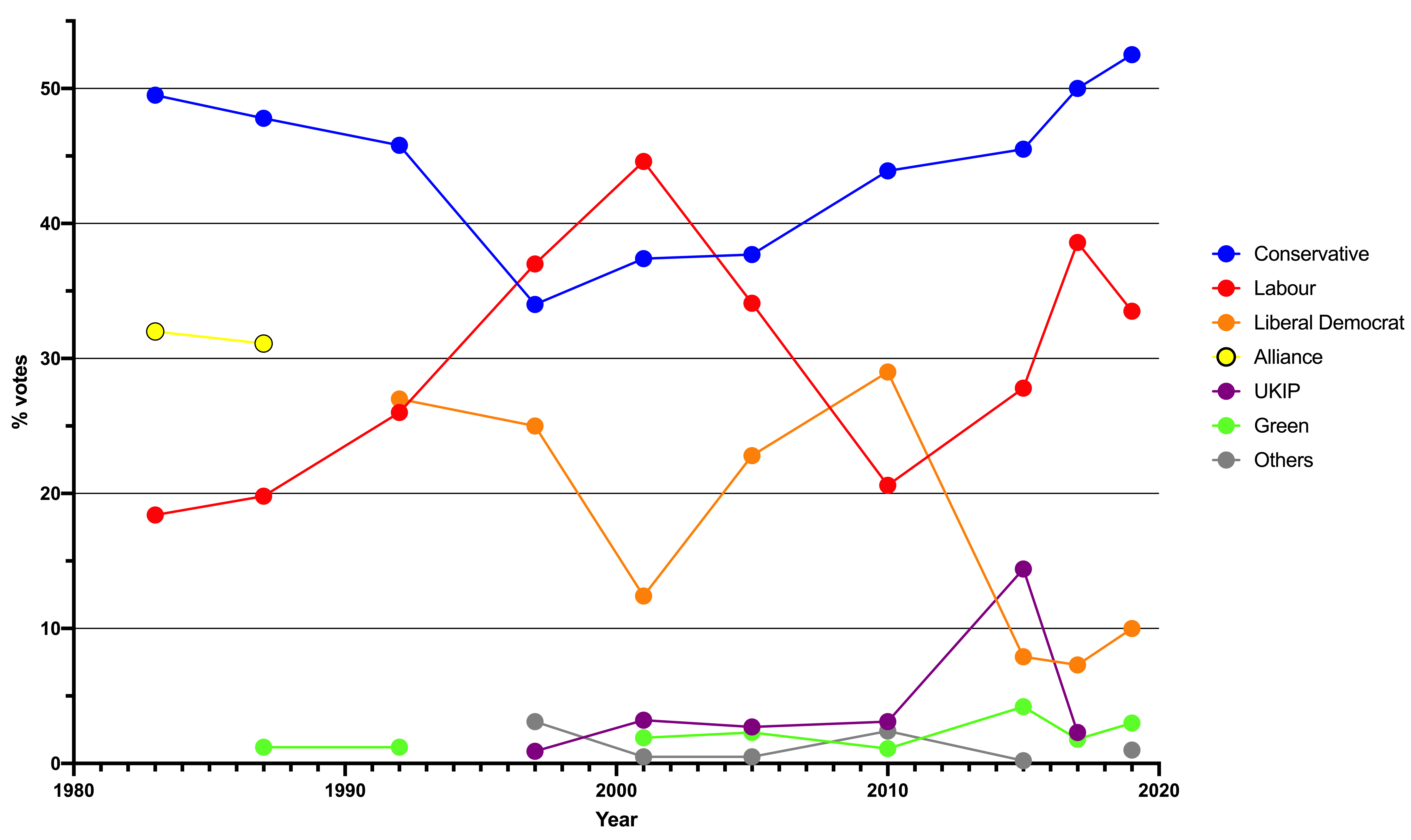 A graph of the electoral history of the Shrewsbury & Atcham UK Parliament constituency, showing % vote by party